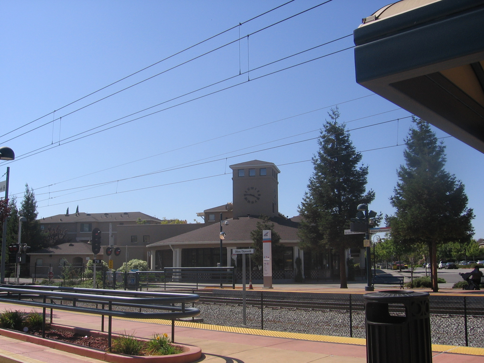 The Ohlone/Chynoweth (VTA) light rail and bus station in San José, California, USA.